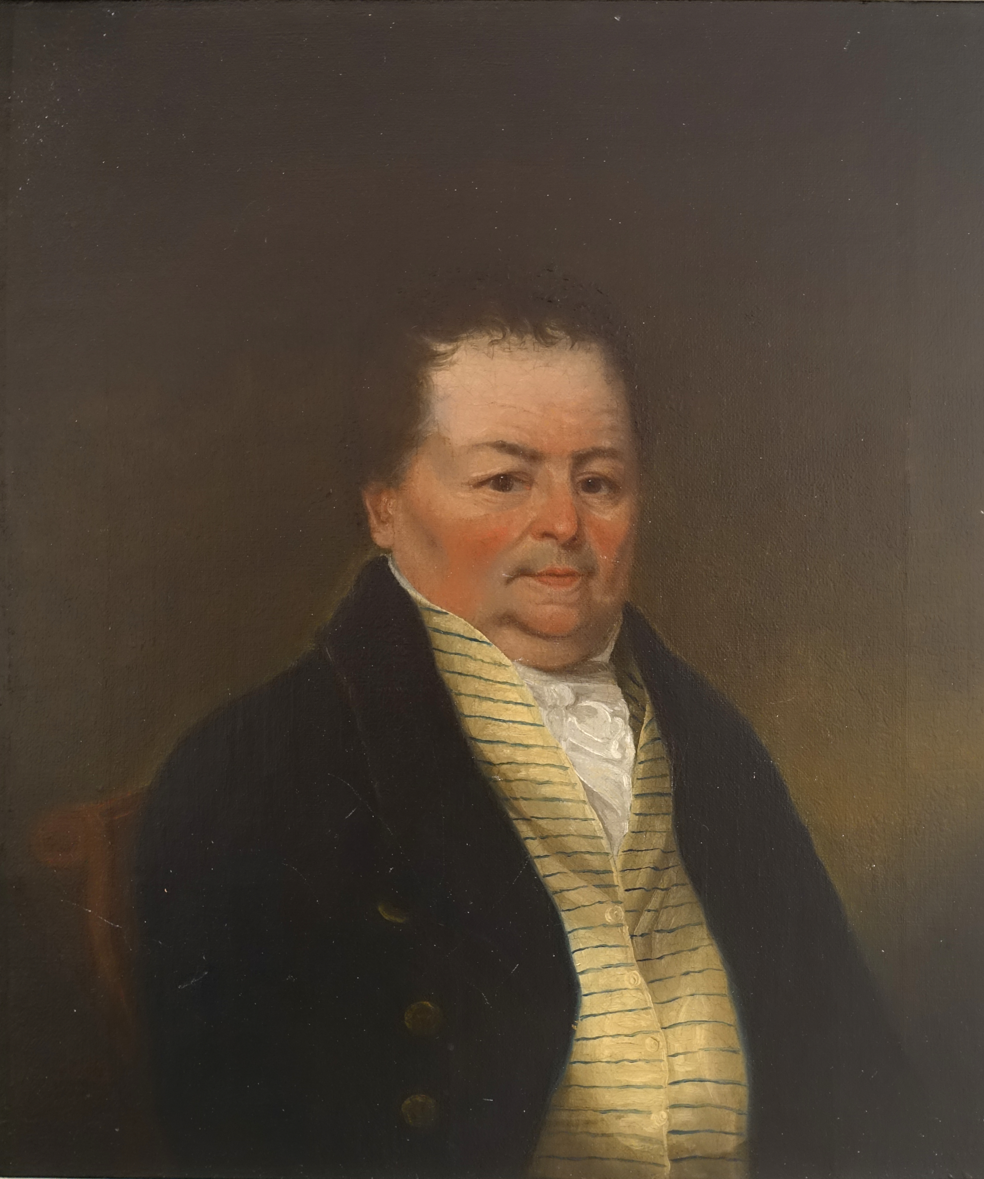 William Hackwood, probably by a local Staffordshire artist, c. 1820, oil on canvas - exhibit in the Wedgwood Museum - Barlaston, Stoke-on-Trent, England.